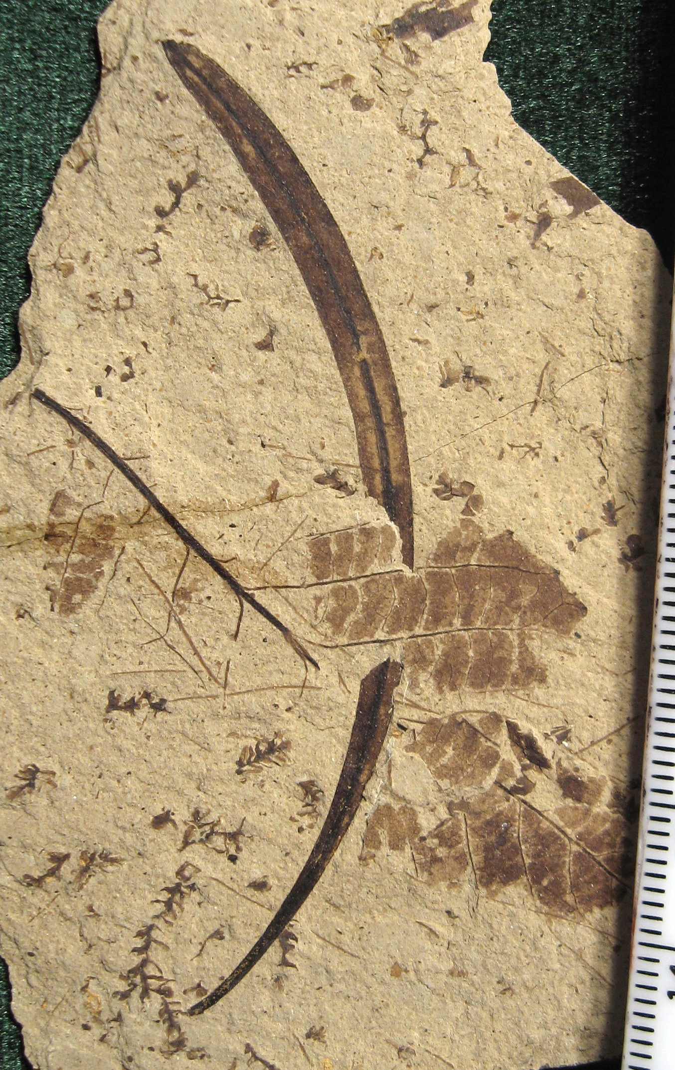 Single needle from an still to be identified species of Sciadopitys with an indeterminate leaf and small groups of Azolla primaeva. ~49.5 million years old. Early Ypresian, Klondike Mountain Formation, Republic, Ferry County, Washington, USA. Stonerose Interpretive Center specimen.